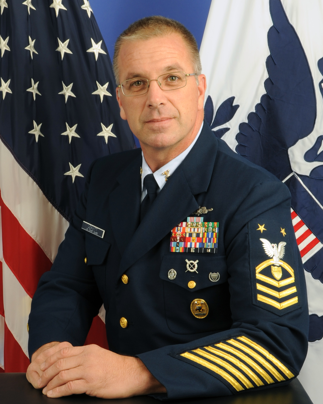 Master Chief Petty Officer of the U.S. Coast Guard Michael Leavitt on 7 December 2009. The U.S. Coast Guard Master Chief Petty Officer is the senior enlisted member and advises the Commandant on enlisted workforce policies, is an advocate for military benefits and entitlements, enlisted mentor, and sounding board for select enlisted administrative actions.